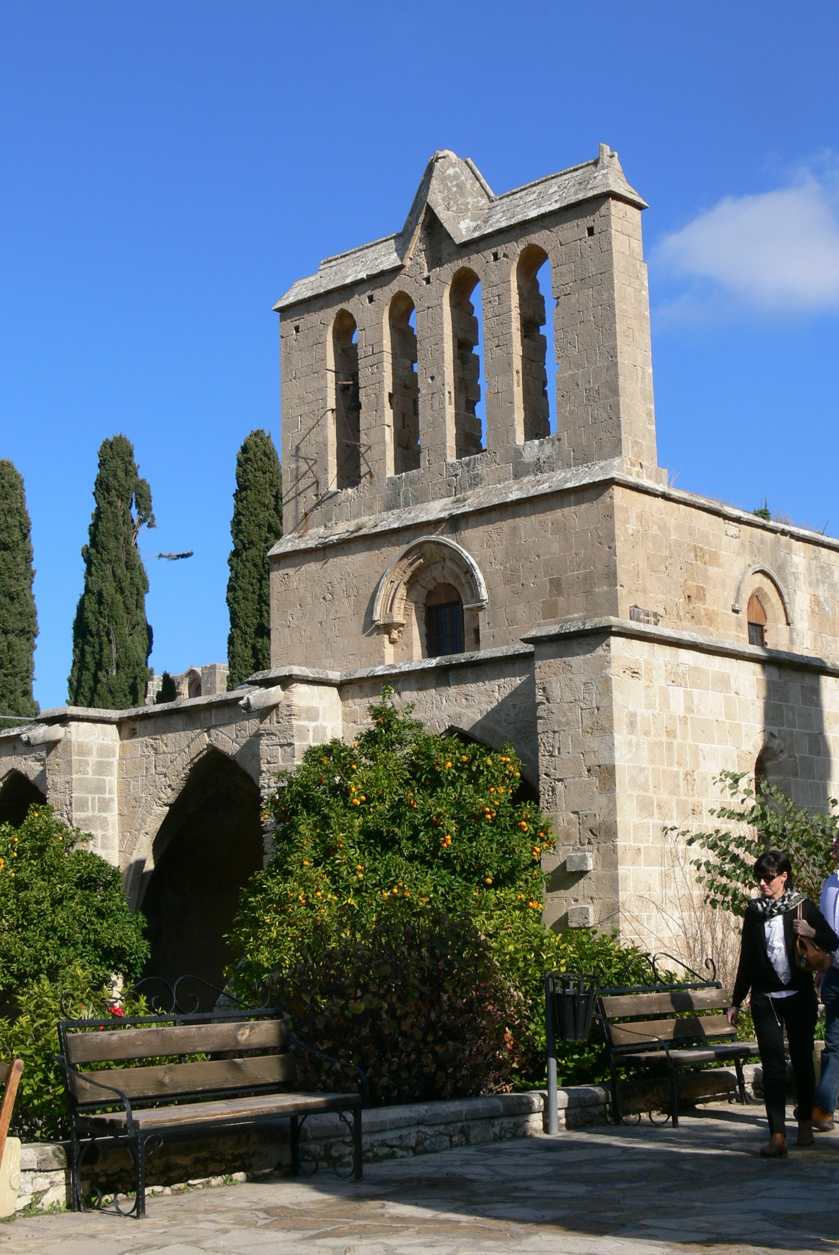 Bellapais monastery ( Northern Cyprus ). Abbey church ( 1270 ) - Facade.